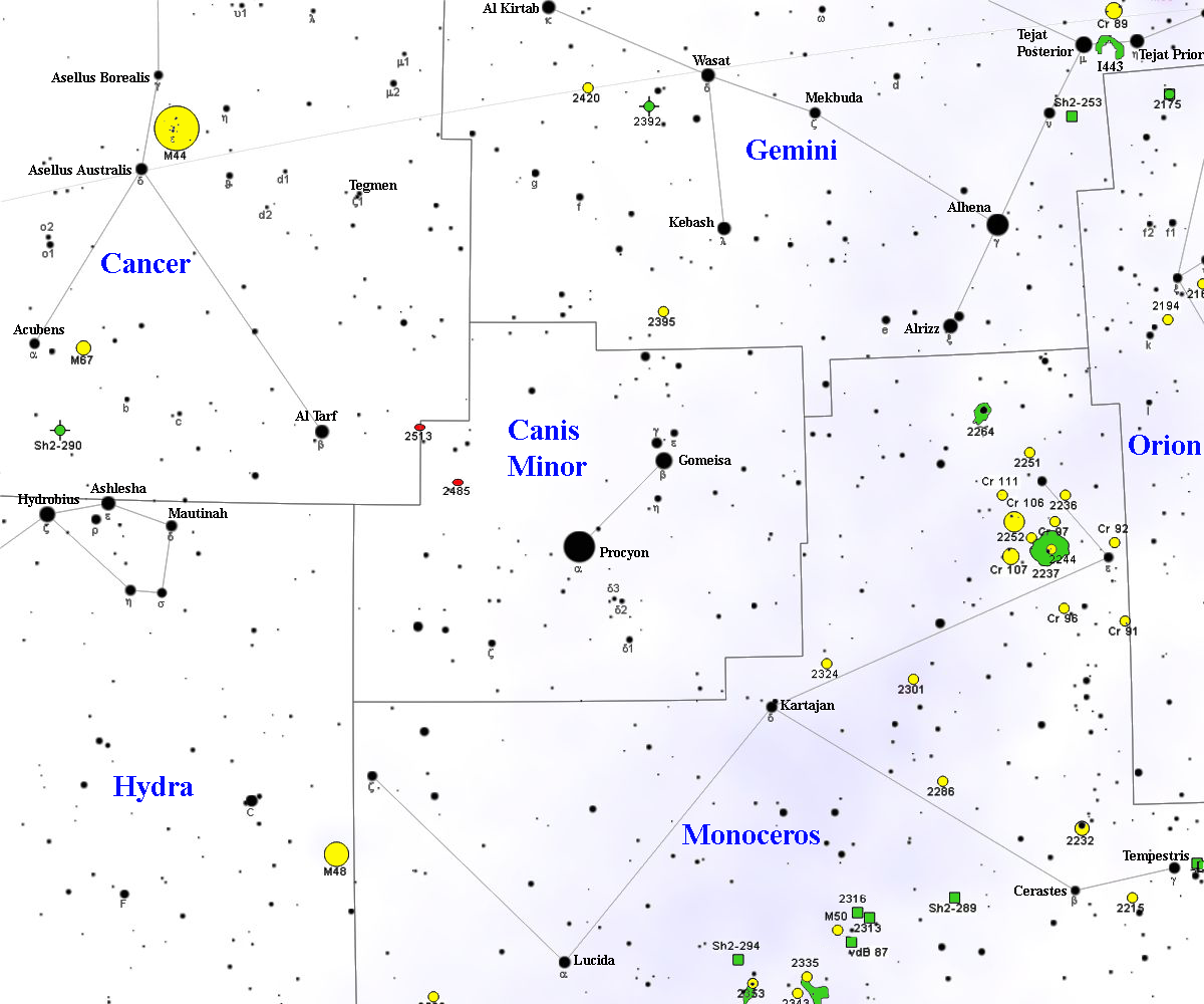 Canis Minor constellation map, with DSOs